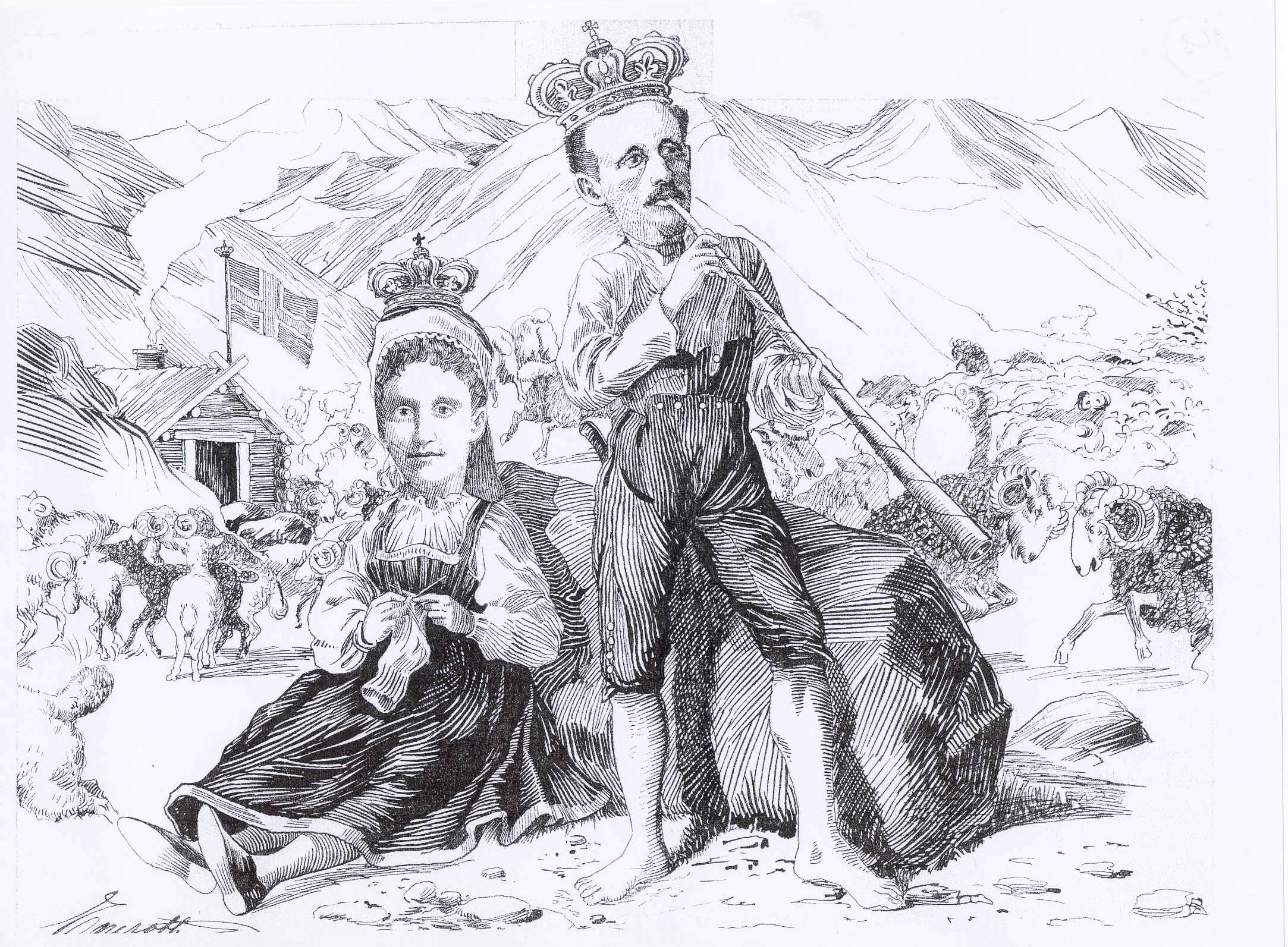 Prince Carl of Sweden and Ingeborg spread calm and harmony among the Norwegian rams. The royal family played a harmonizing role in the issue of the union between Sweden and Norway. Undated drawing by Hjalmar Eneroth, probably after 1897, when Carl and Ingeborg married.